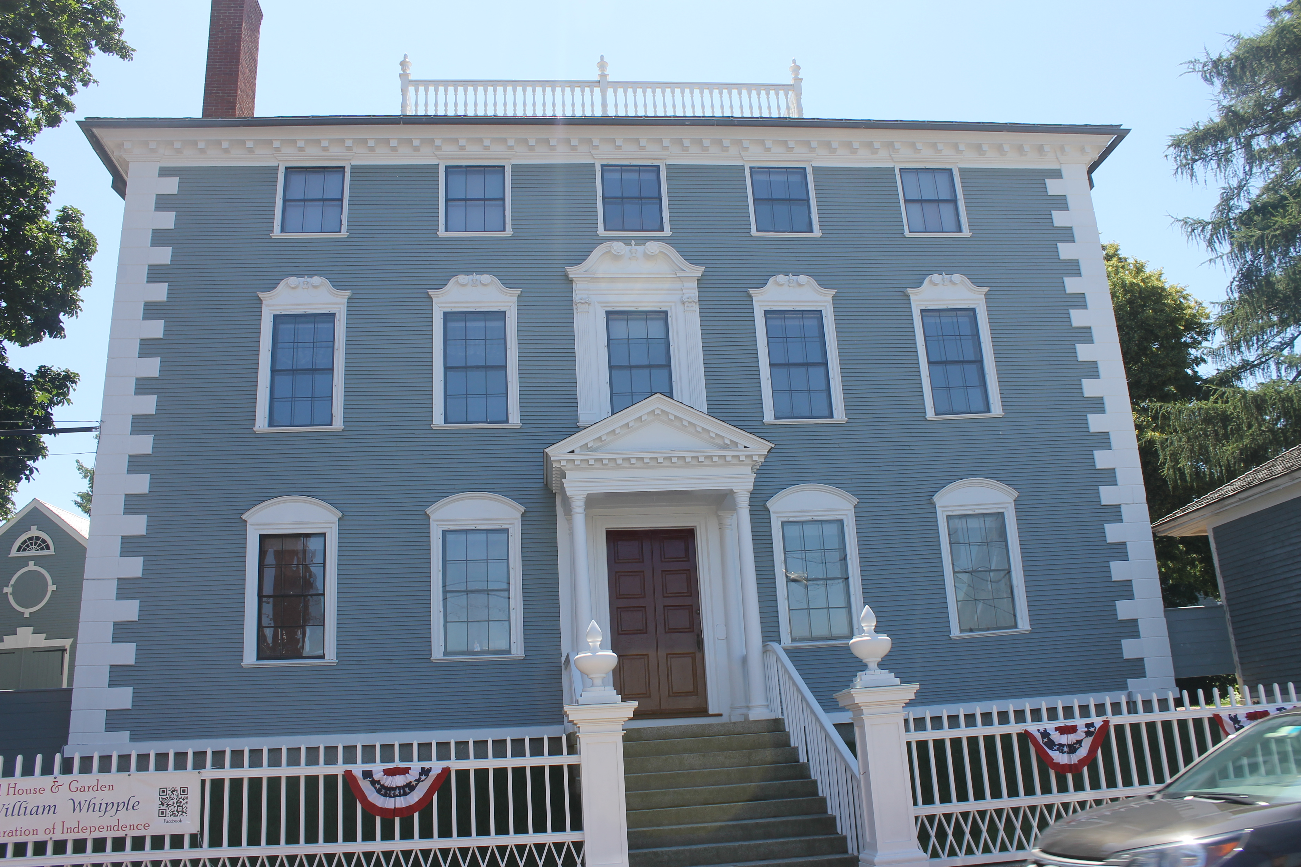 I took photo of William Whipple House in Portsmouth, NH, with Canon camera.